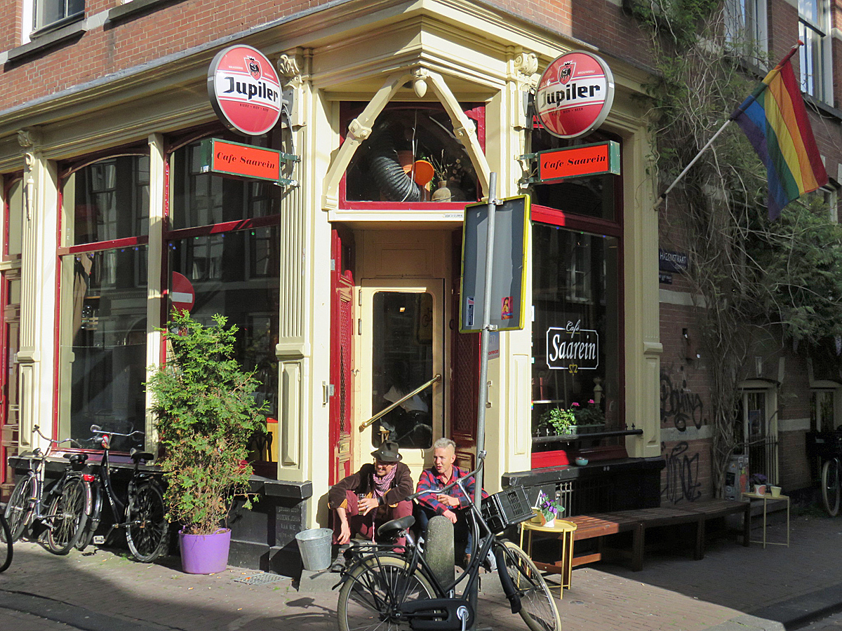 The lesbian bar Saarein, which is located at Elandsstraat 119 in Amsterdam since 1978.